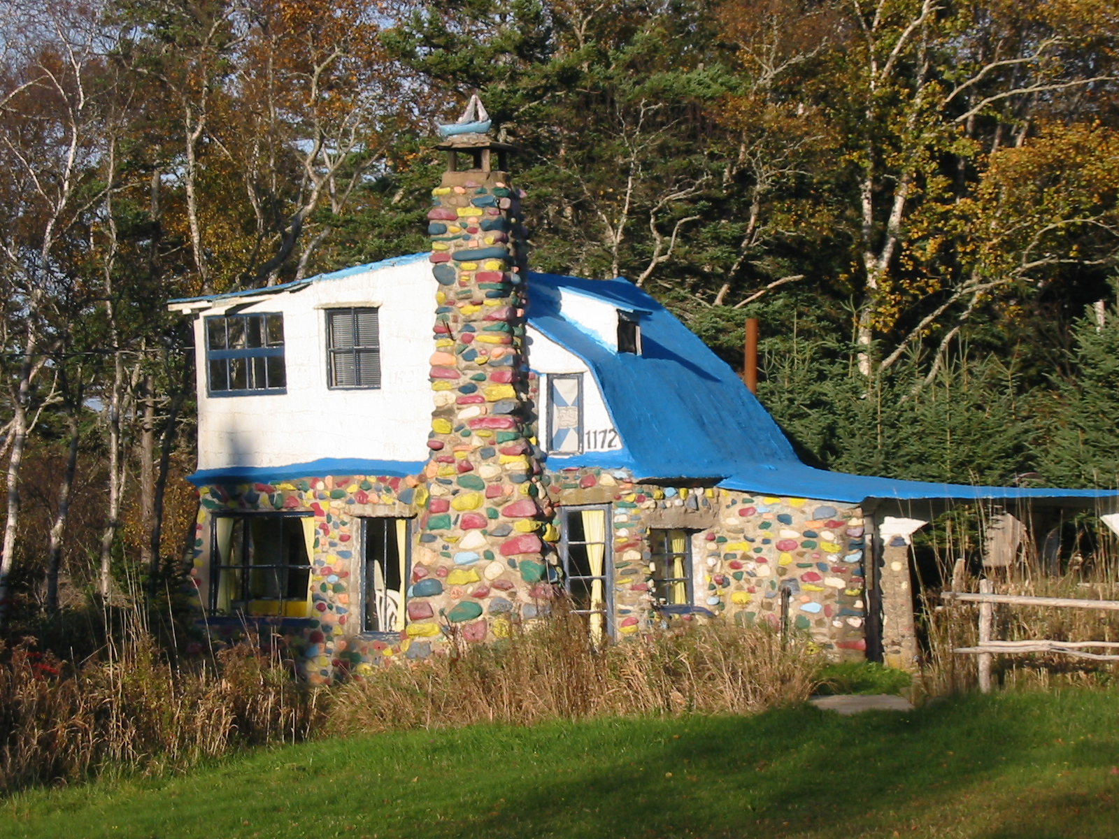 Built by Charles Macdonald in 1936.